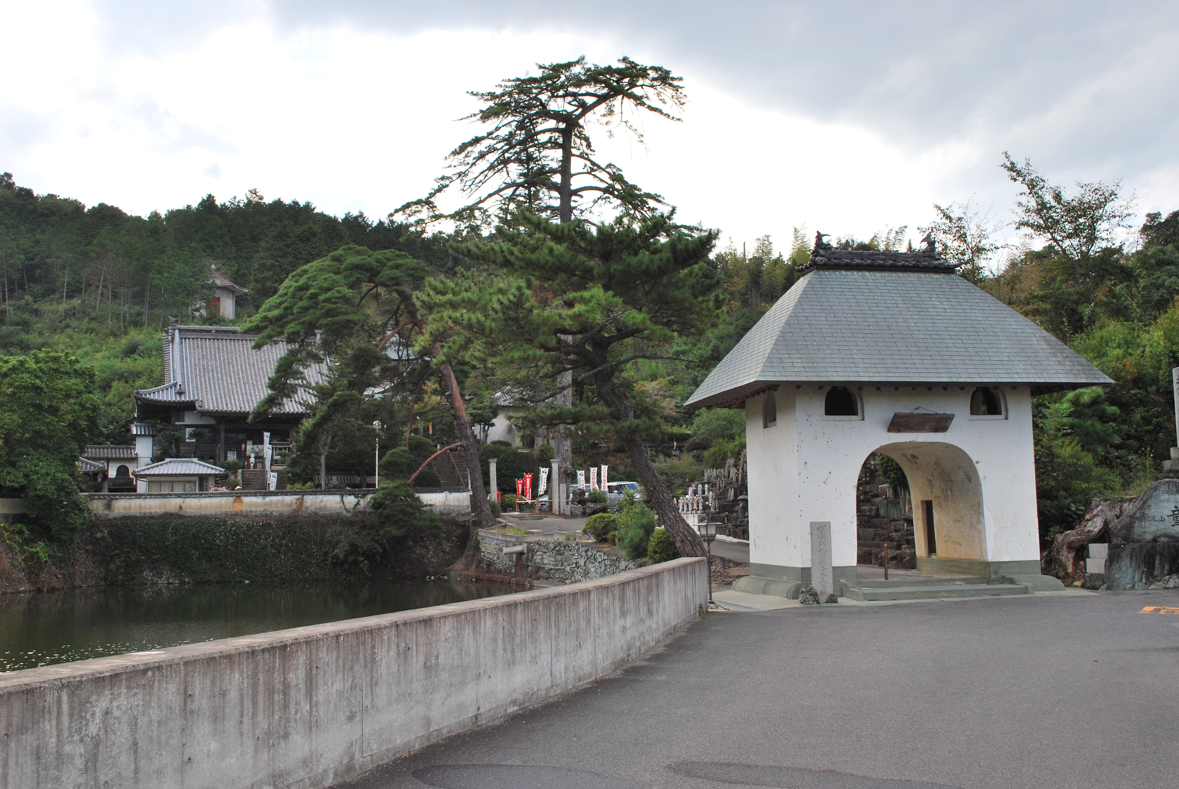 Dōgaku-ji temple